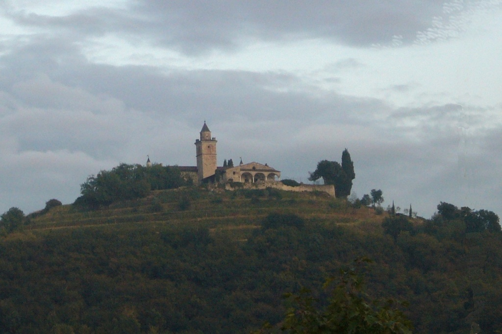 The Santissima view from Ronco